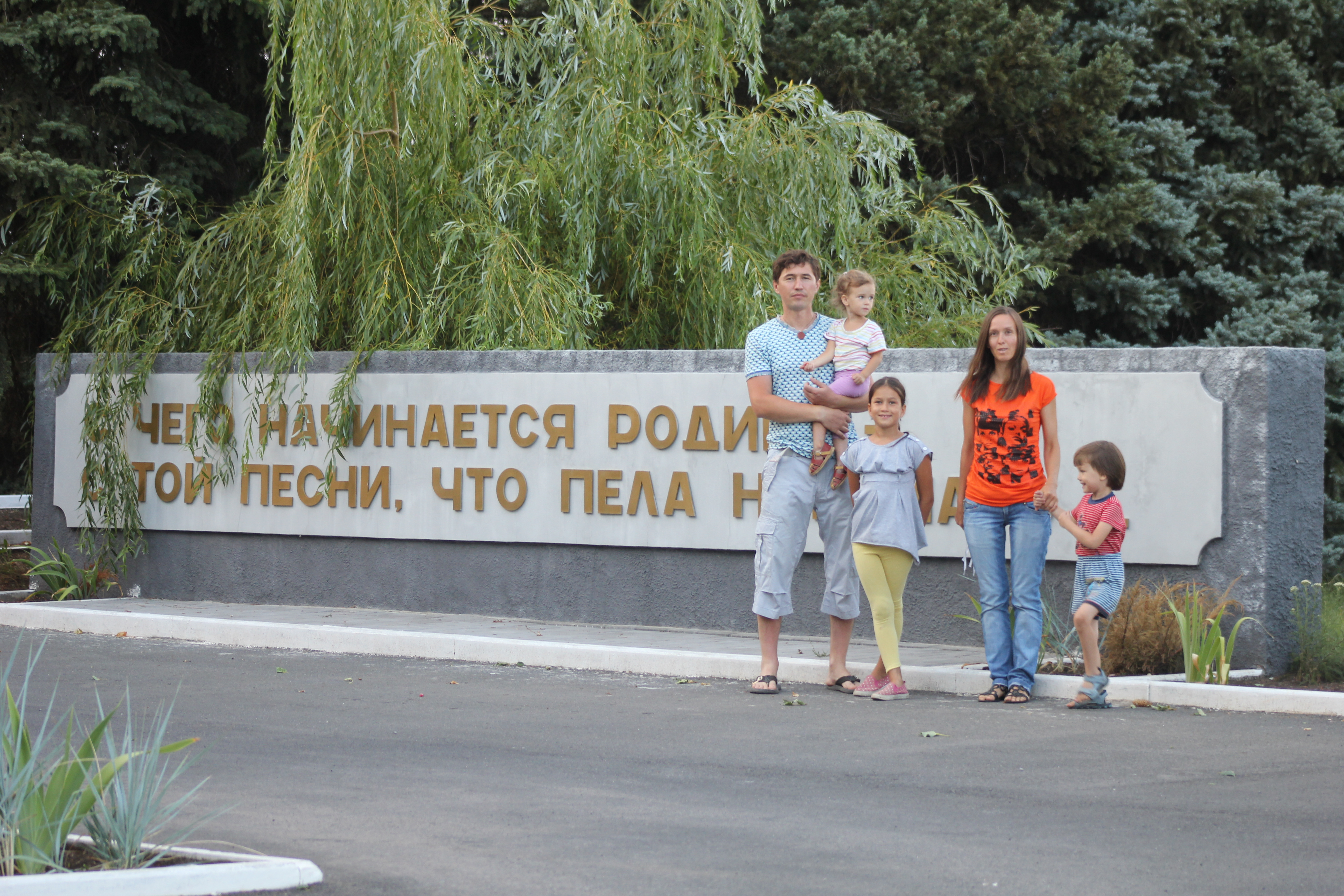 Monument "Motherland" Matveev Kurgan